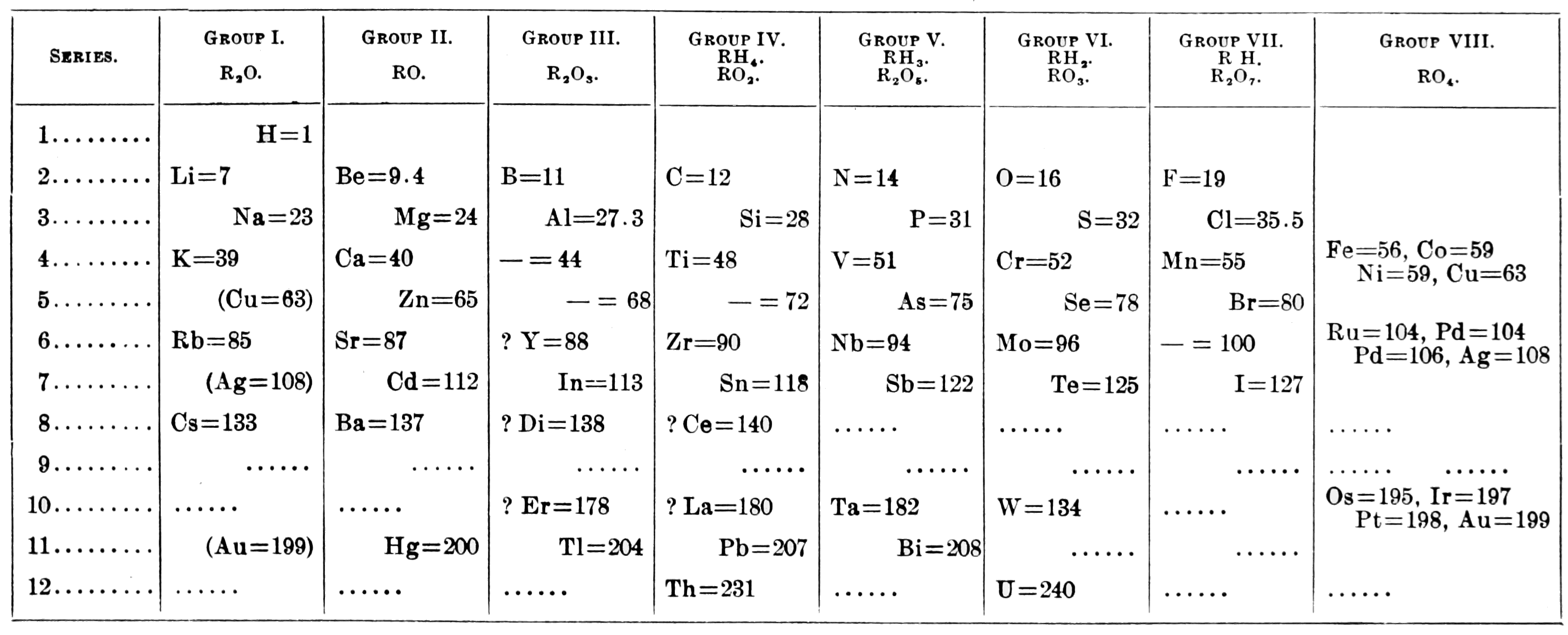 Mendeleef periodic table of 1871